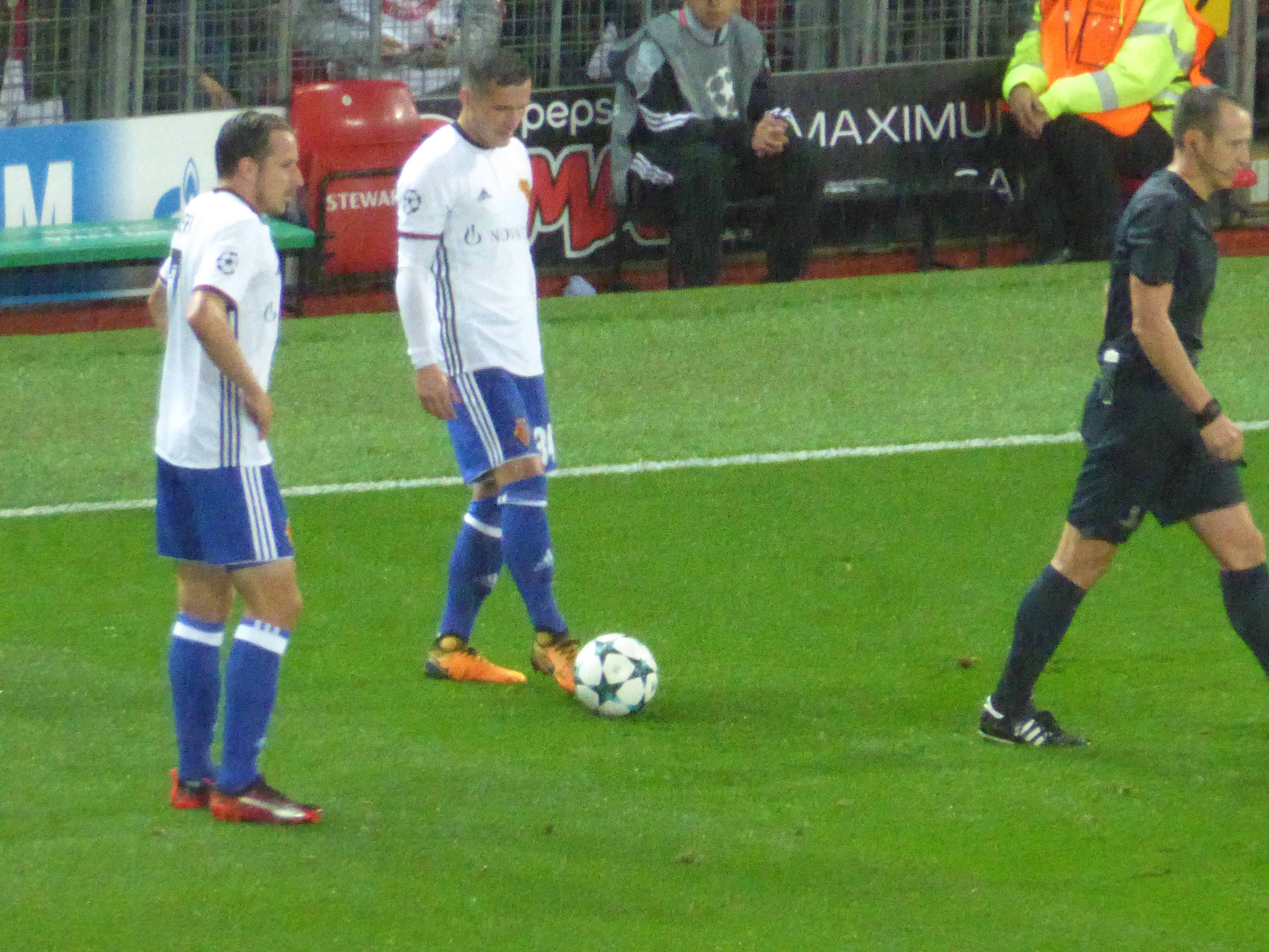 Manchester United v FC Basel (3-0), UEFA Champions League, Old Trafford, Manchester, Greater Manchester, England, 12 September 2017